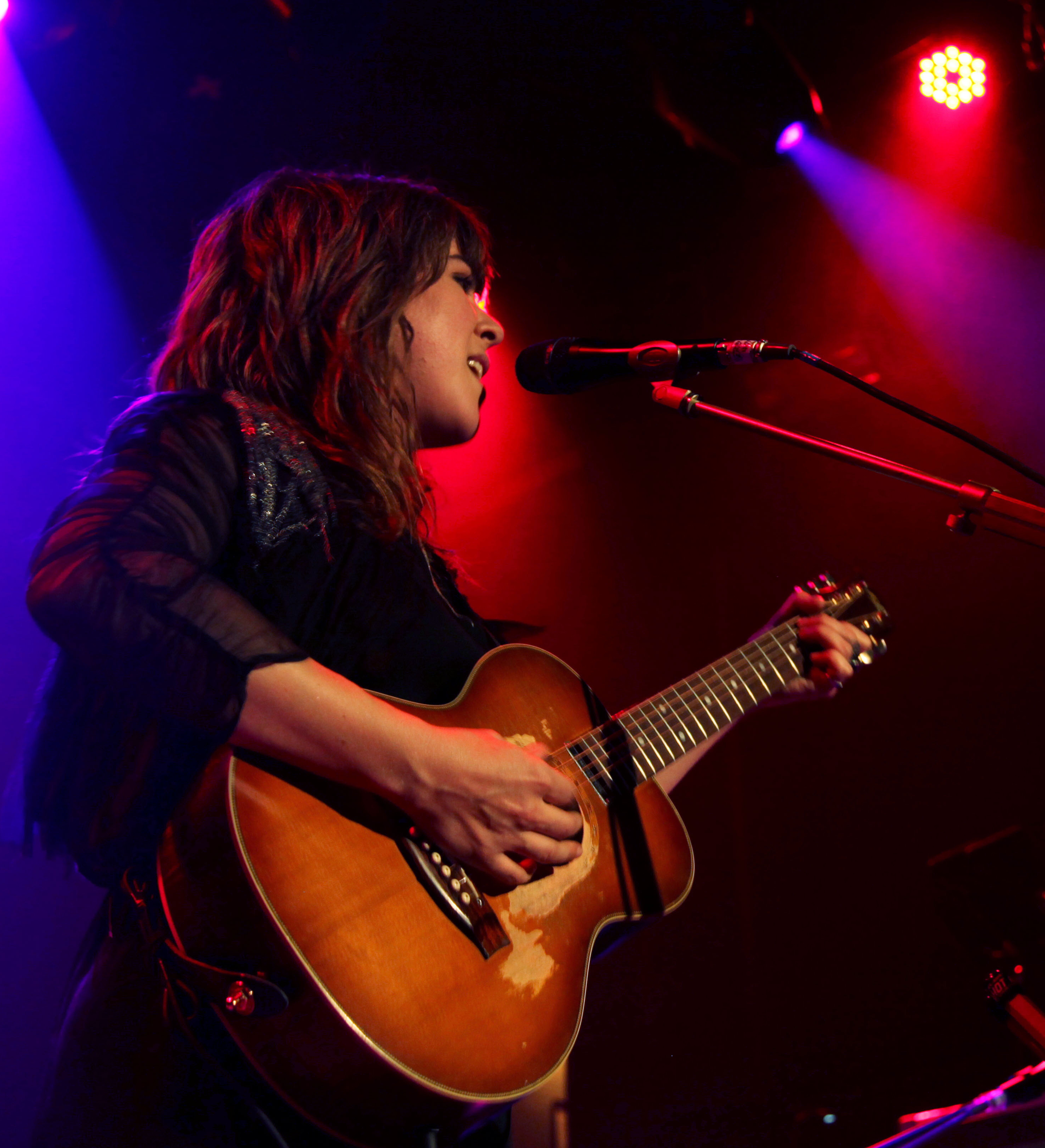 Serena Ryder playing at Bowery Ball Room in May 2013.